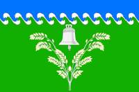 Flag of Fedorovskoe rural settlement, Krasnodar Territory, Russia